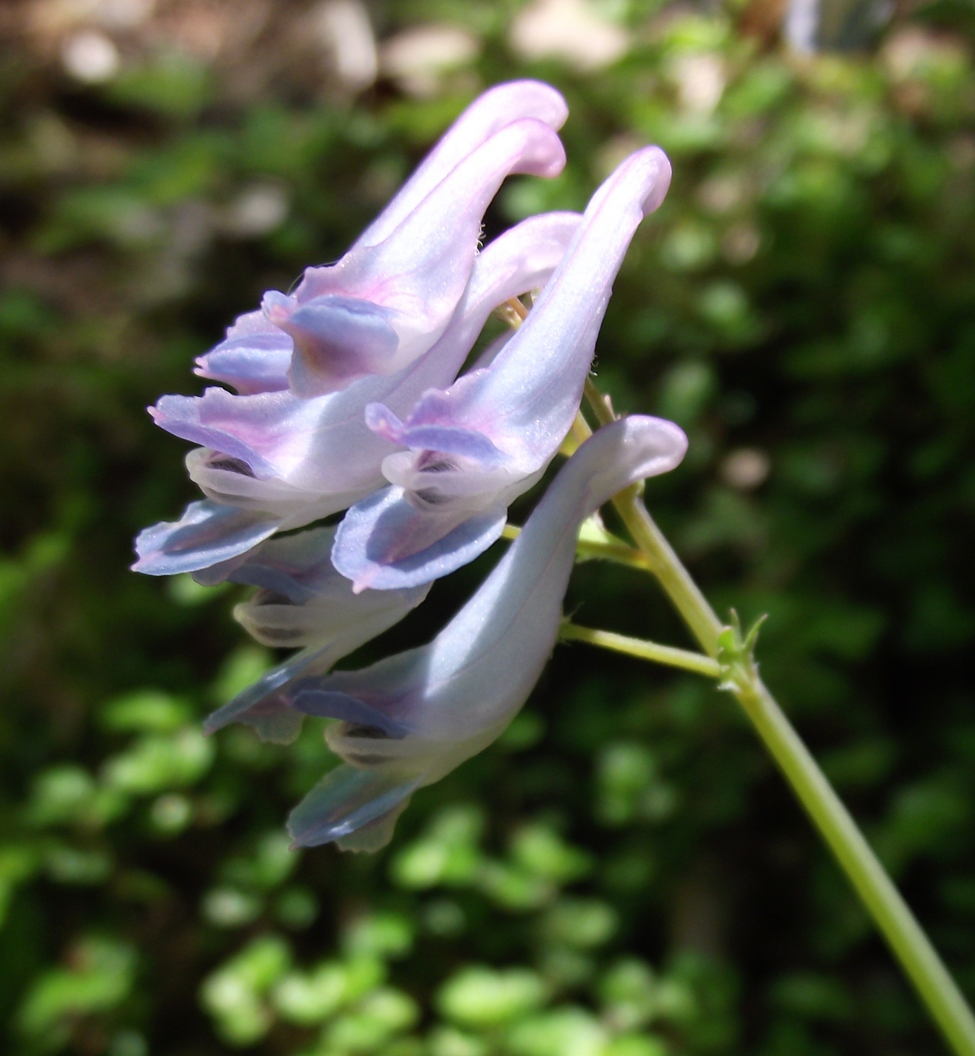 Corydalis linstowiana at the UC Botanical Garden, Berkeley, California, USA. Identified by sign.